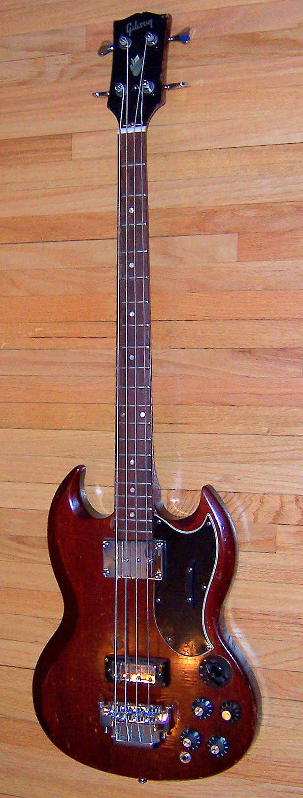 Gibson EB-3 bass guitar. From ca. 1967. Picture by me —Jpkotta 22:06, 2 January 2006 (UTC)